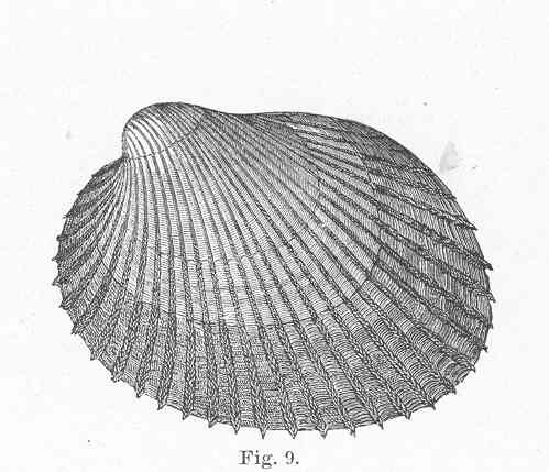 Bloody Clam, Argina pexata Subject: Argina Tag: Shellfish